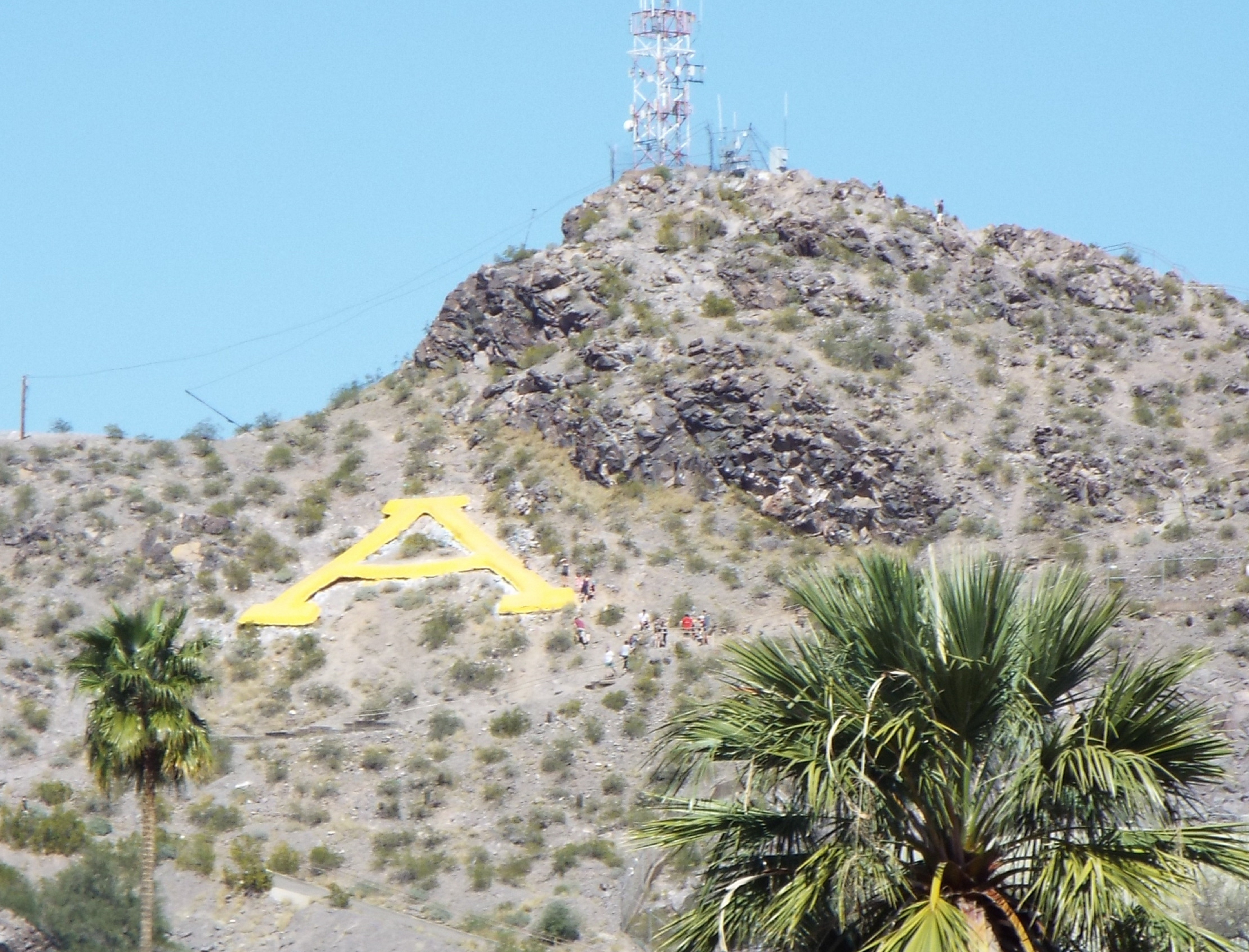 Tempe- “A” Mountain, as the Tempe Butte is often refferred to. The “A” was painted in 1955.